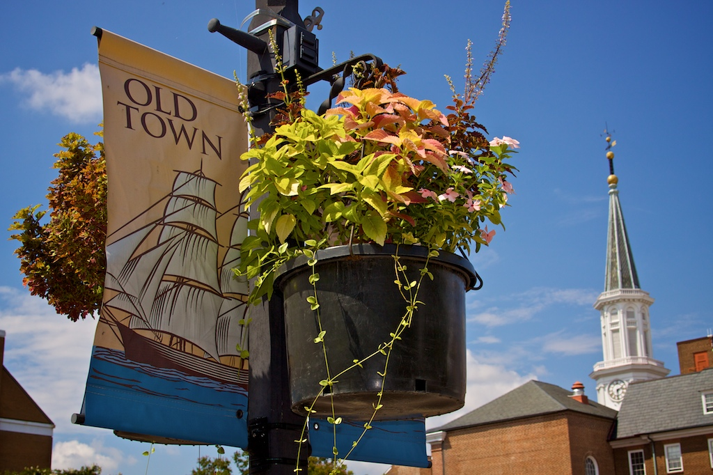 View of King Street in Old Town, Alexandria, Virginia.